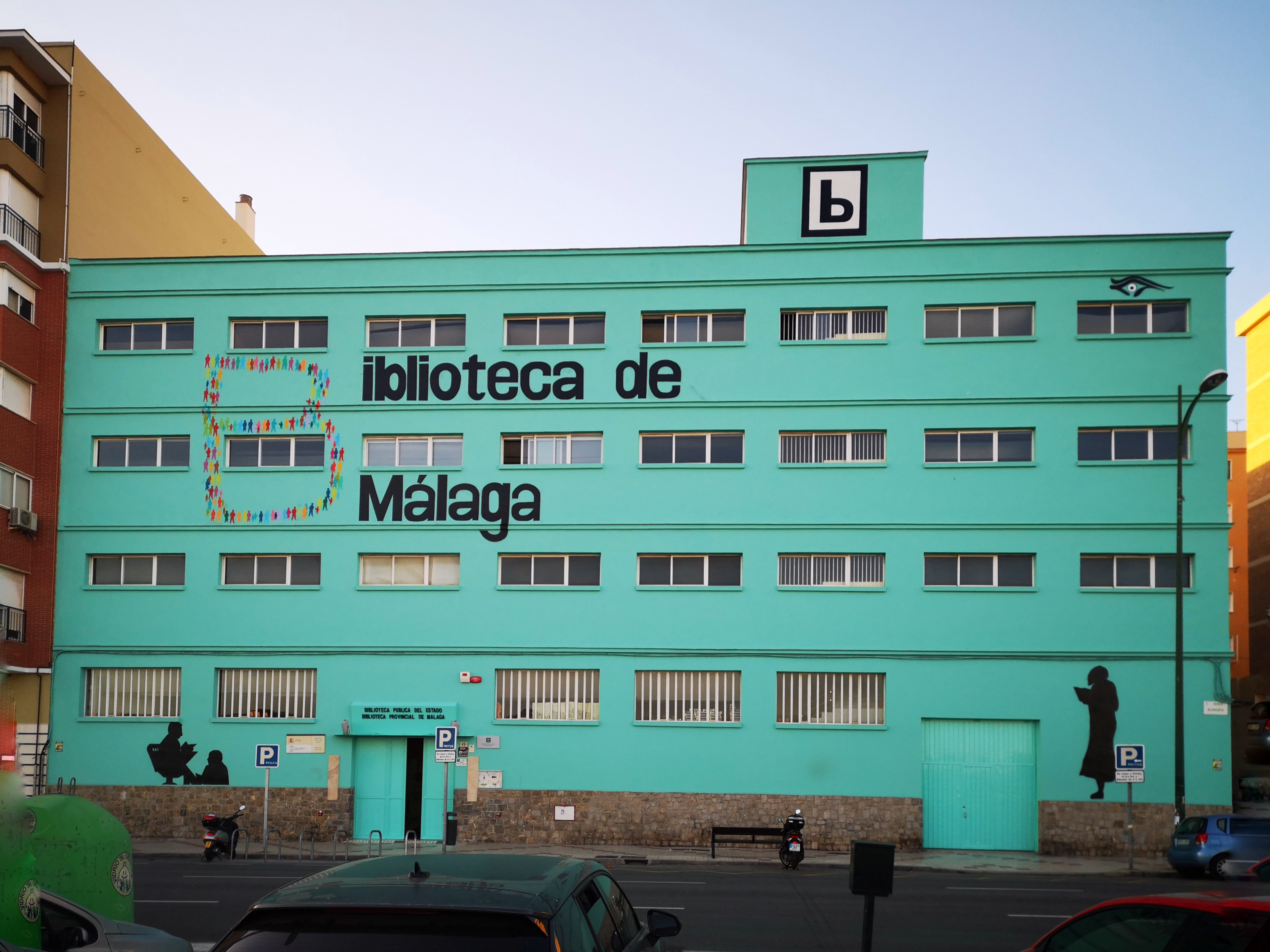 Provisional headquarters of the Provincial Library of Malaga.